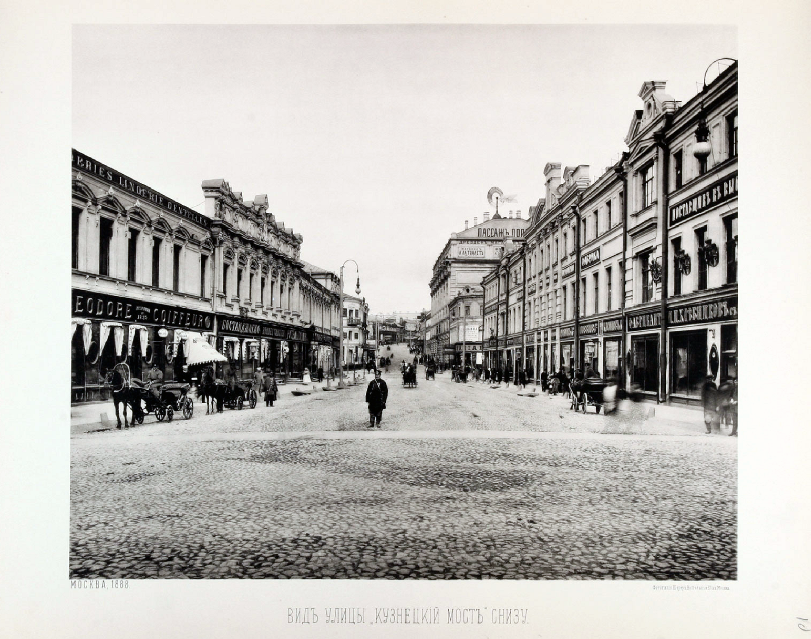 Plate 10: Kuznetsky Most Street, Moscow.